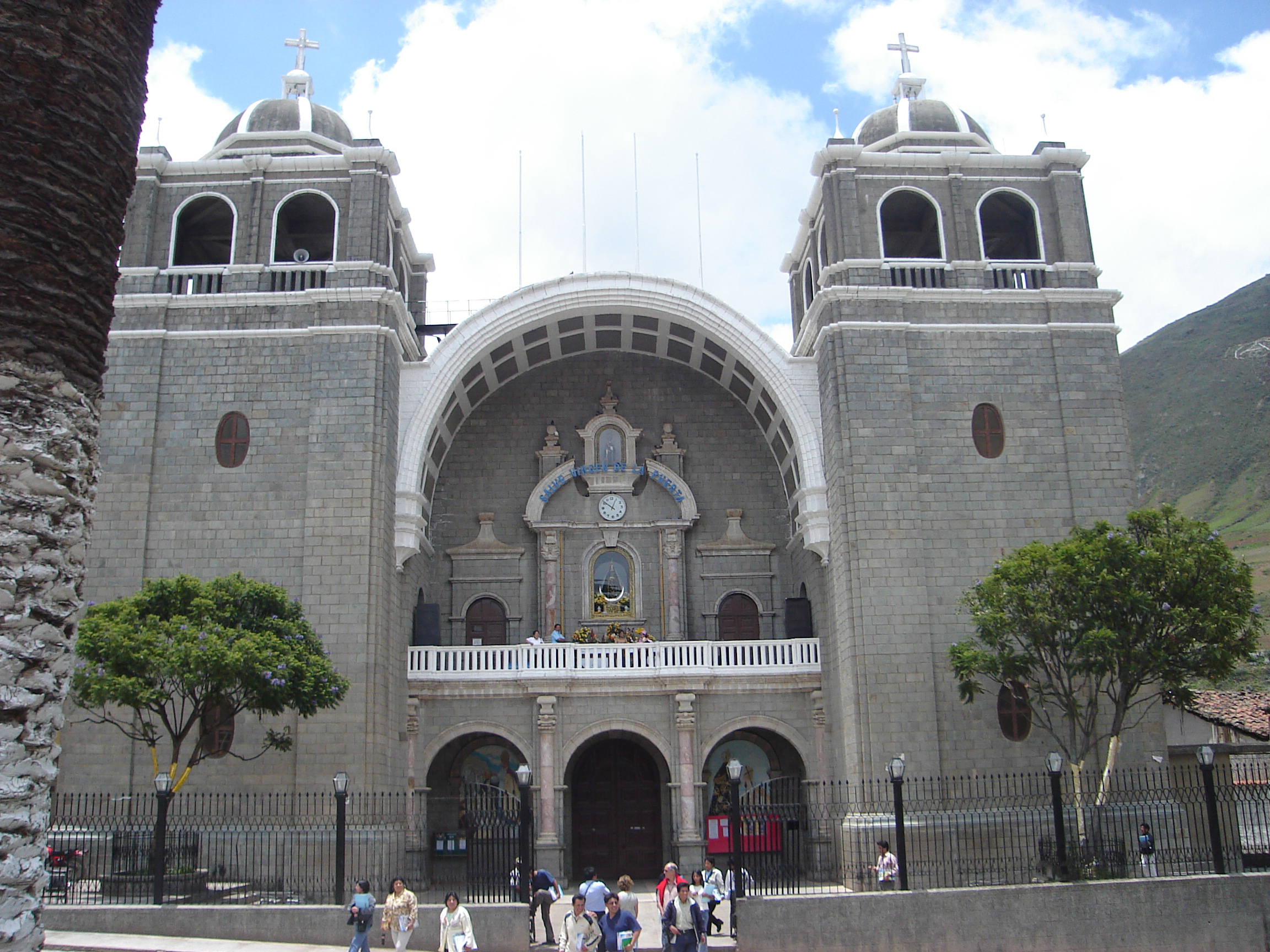 Iglesia de la Virgen de la Puerta This picture isn't actually taken in Trujillo. It is of a Cathedral about 45 minutes outside of Trujillo in a town called Otuzco.